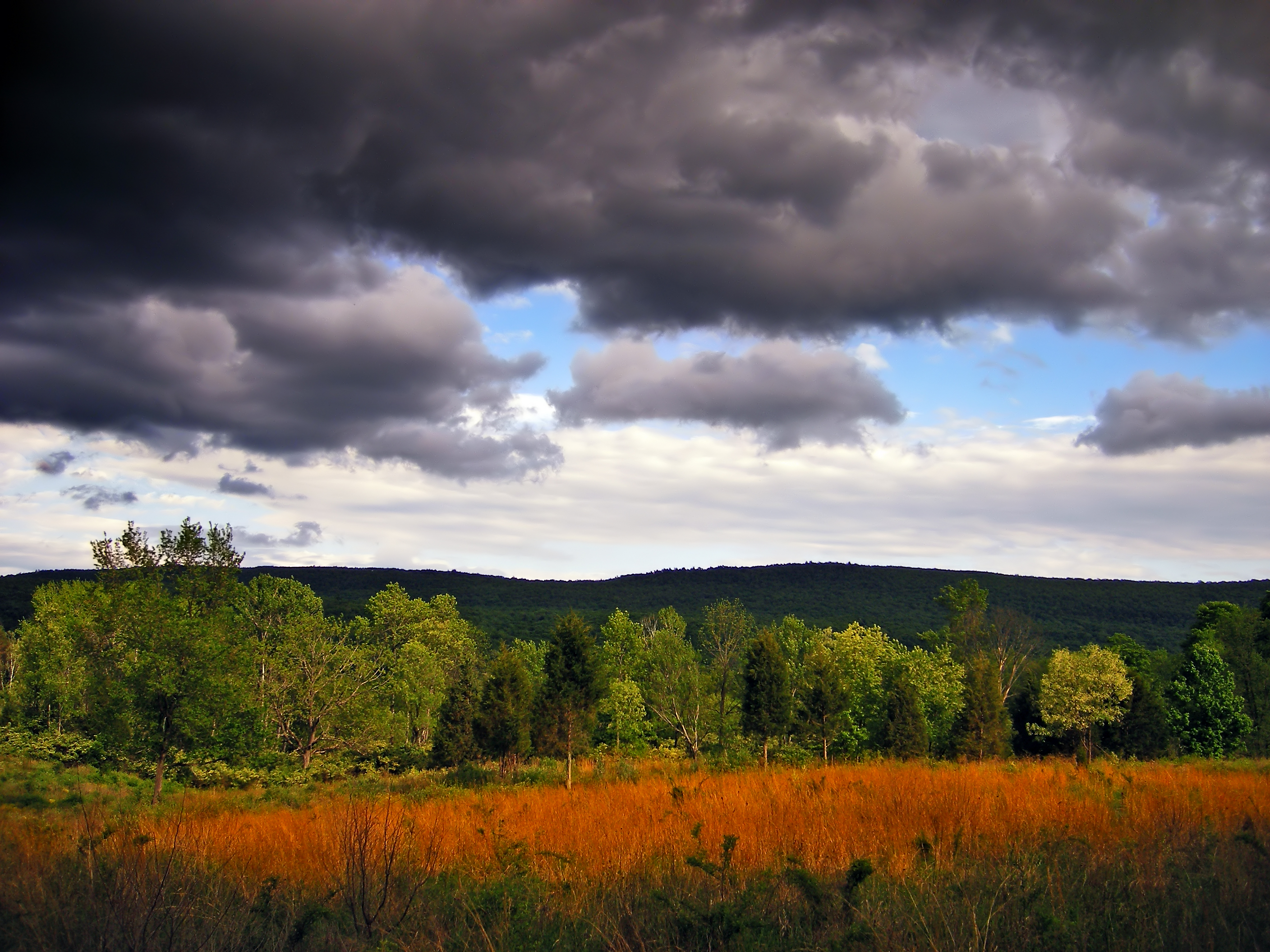 Thickening clouds, Sandyston Township, Sussex County.